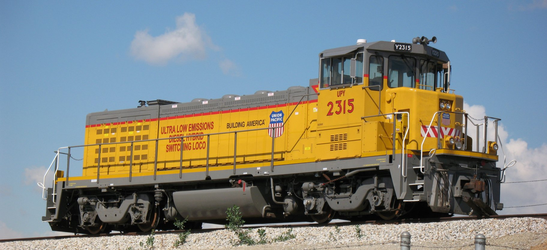 Union Pacific locomotive Y2315--one of UP's new RailPower GG20B "Green Goat" locomotives operating out of Mira Loma, Ca